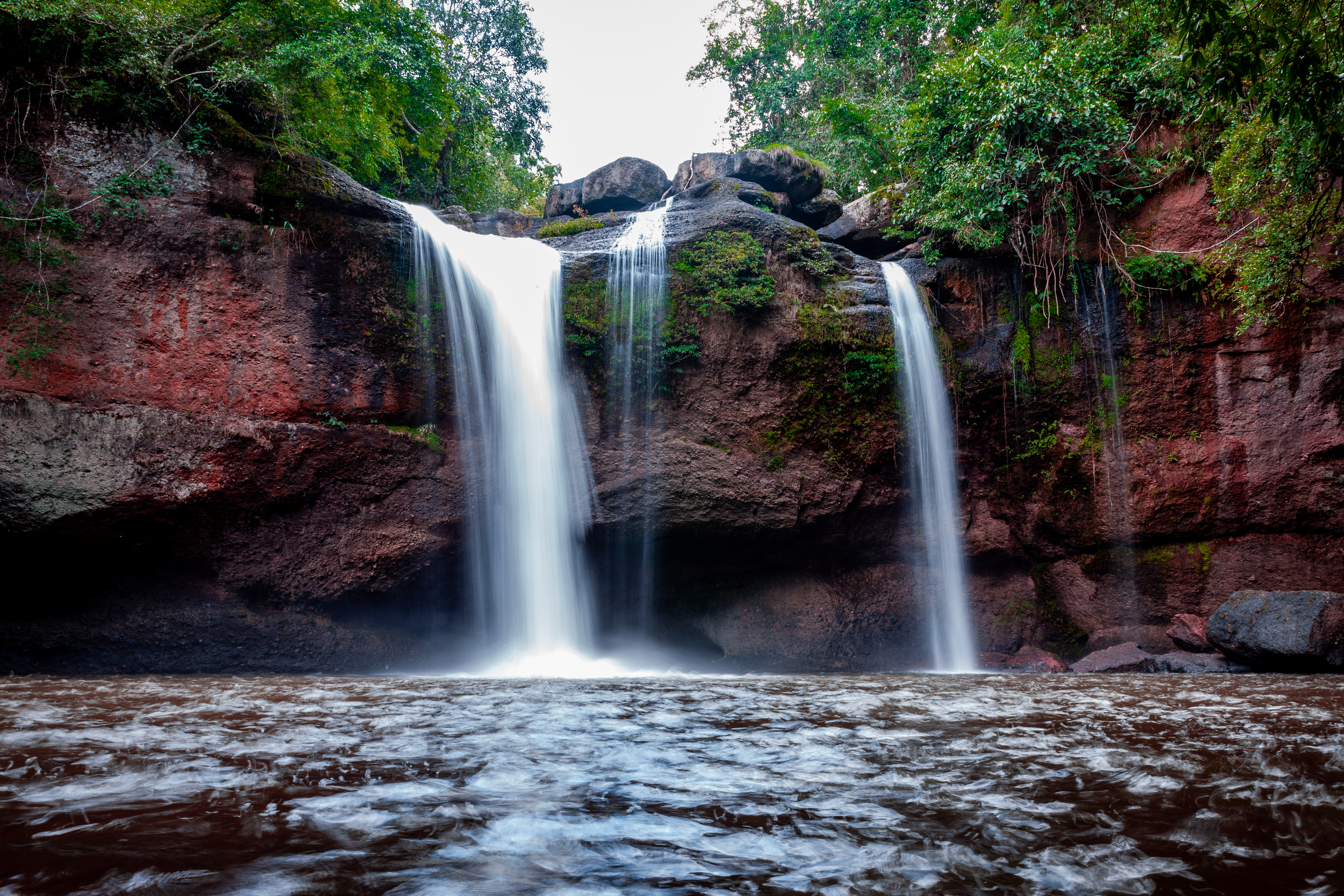 Haew Suwat waterfall, Khao Yai National Park, Nakhon Ratchasima Province, Thailand.